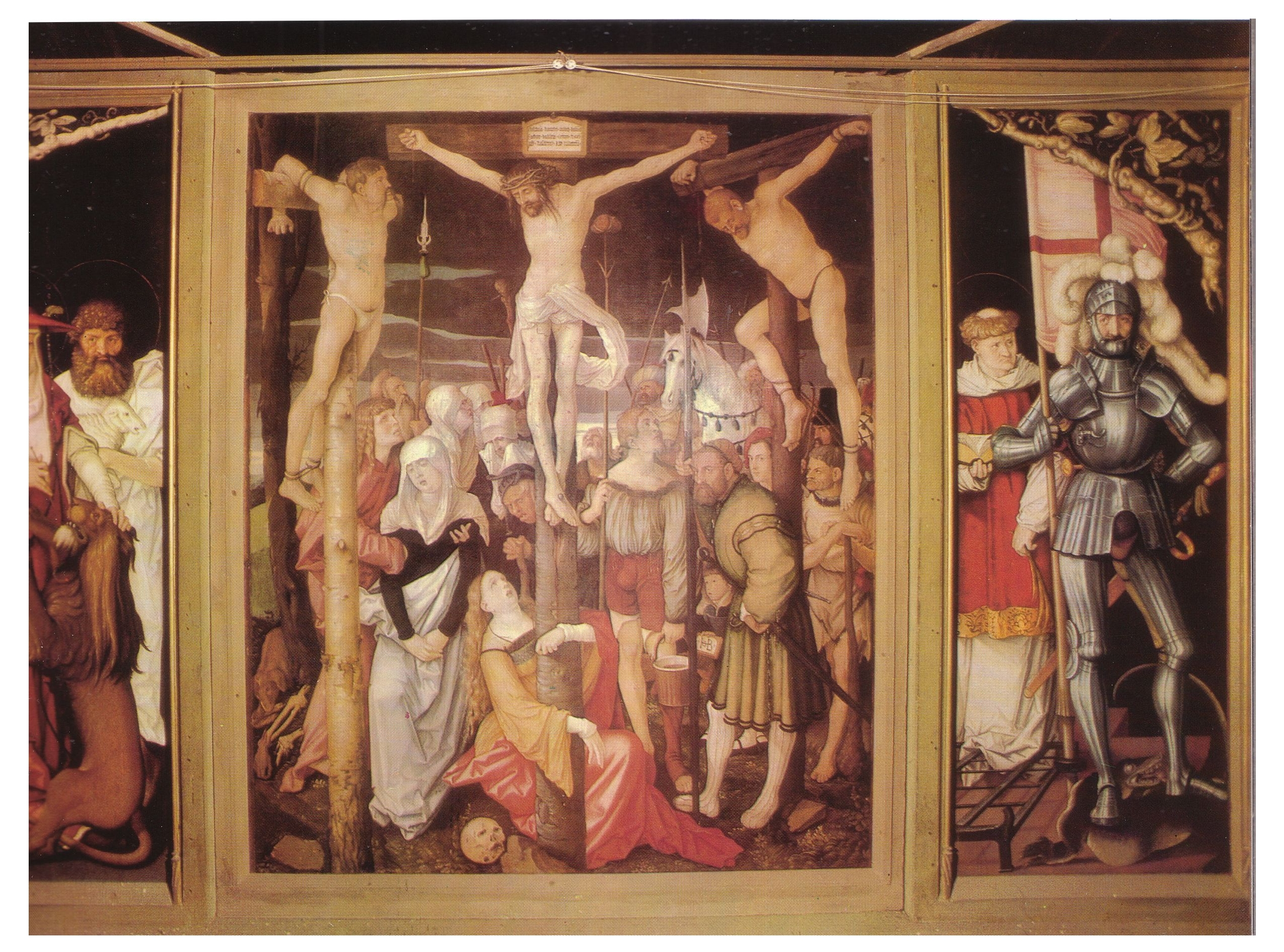 backside High Altar Freiburg Minster